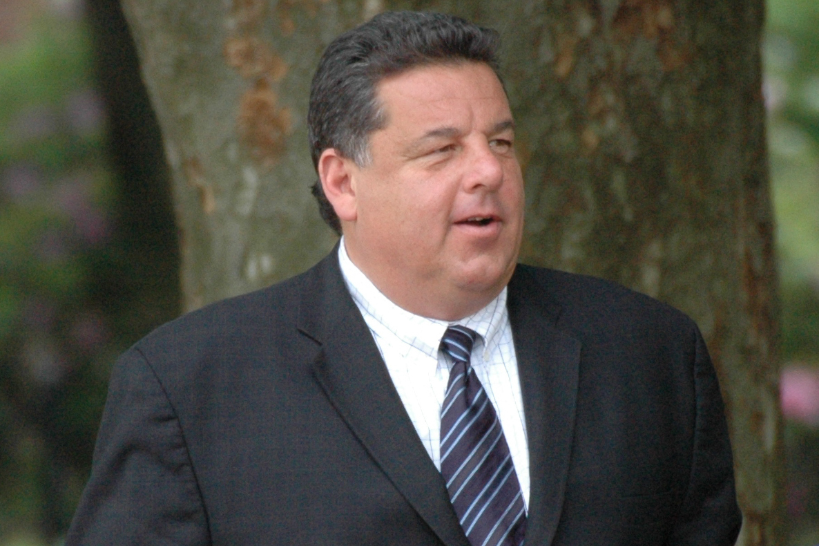 Sopranos star at his daughters graduation.